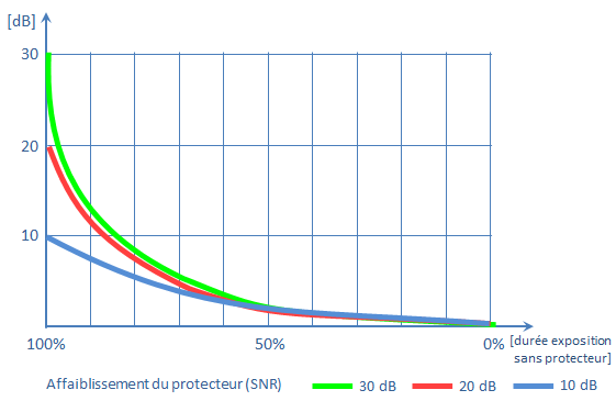 Rate port guard against noise